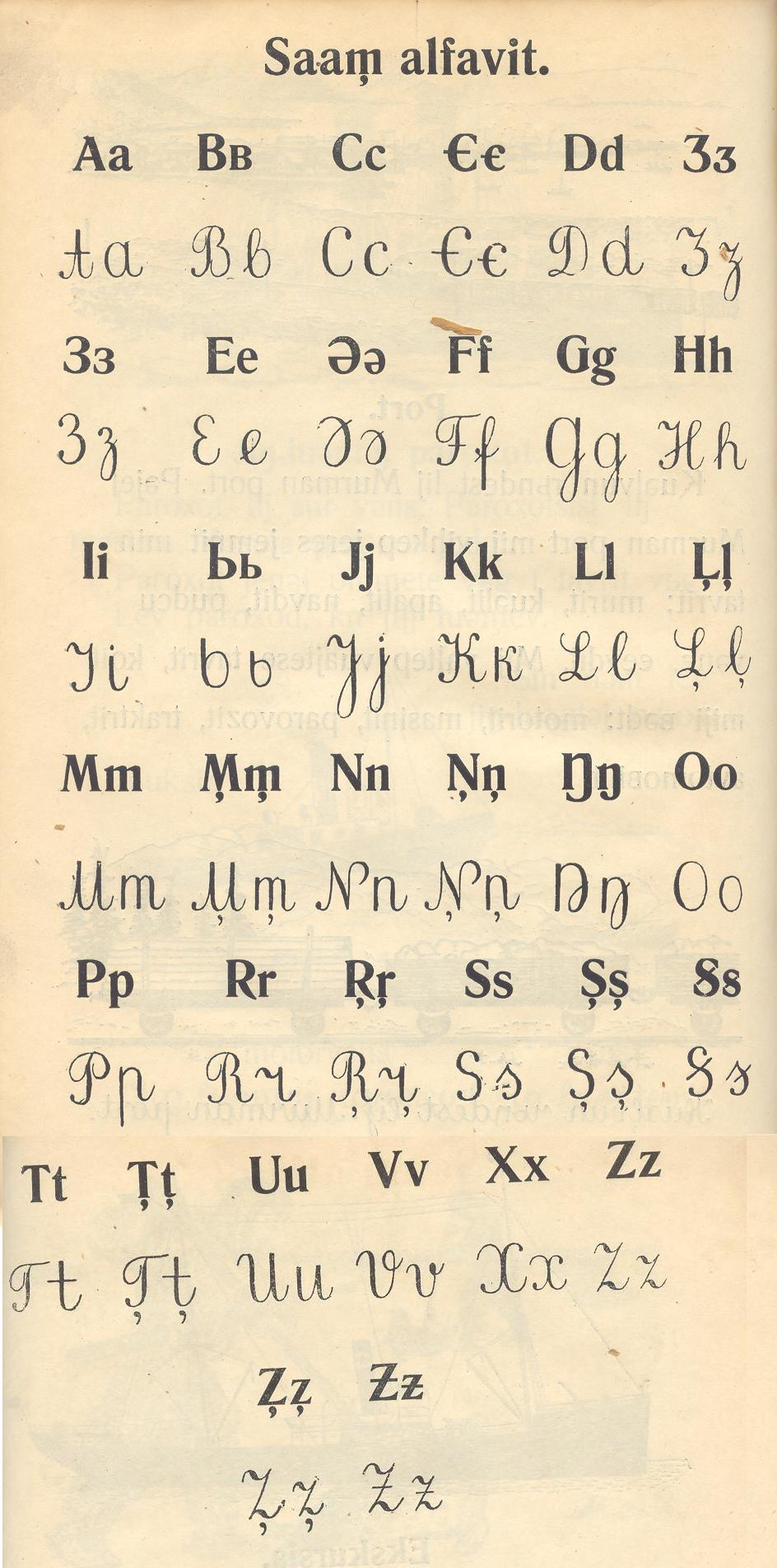 Latin alphabet for the Sami languages of the Soviet Union published in a primer (1933); in the original book the alphabet was printed on two pages, but the two parts stick together in the present image